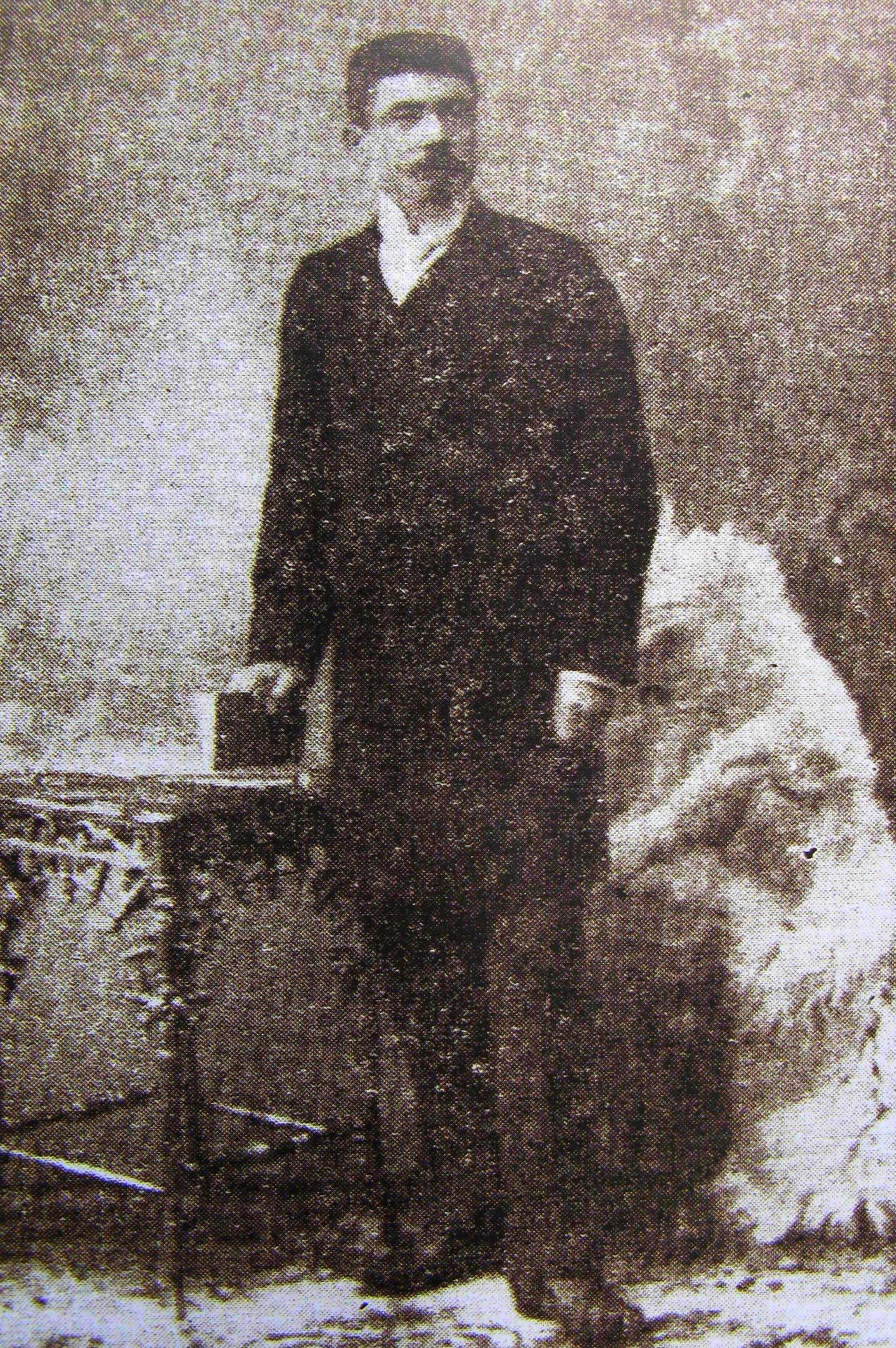 Tanasije Pejatovic (1875-1903), first director of the Serbian Grammar School, Pljevlja Gymnasium